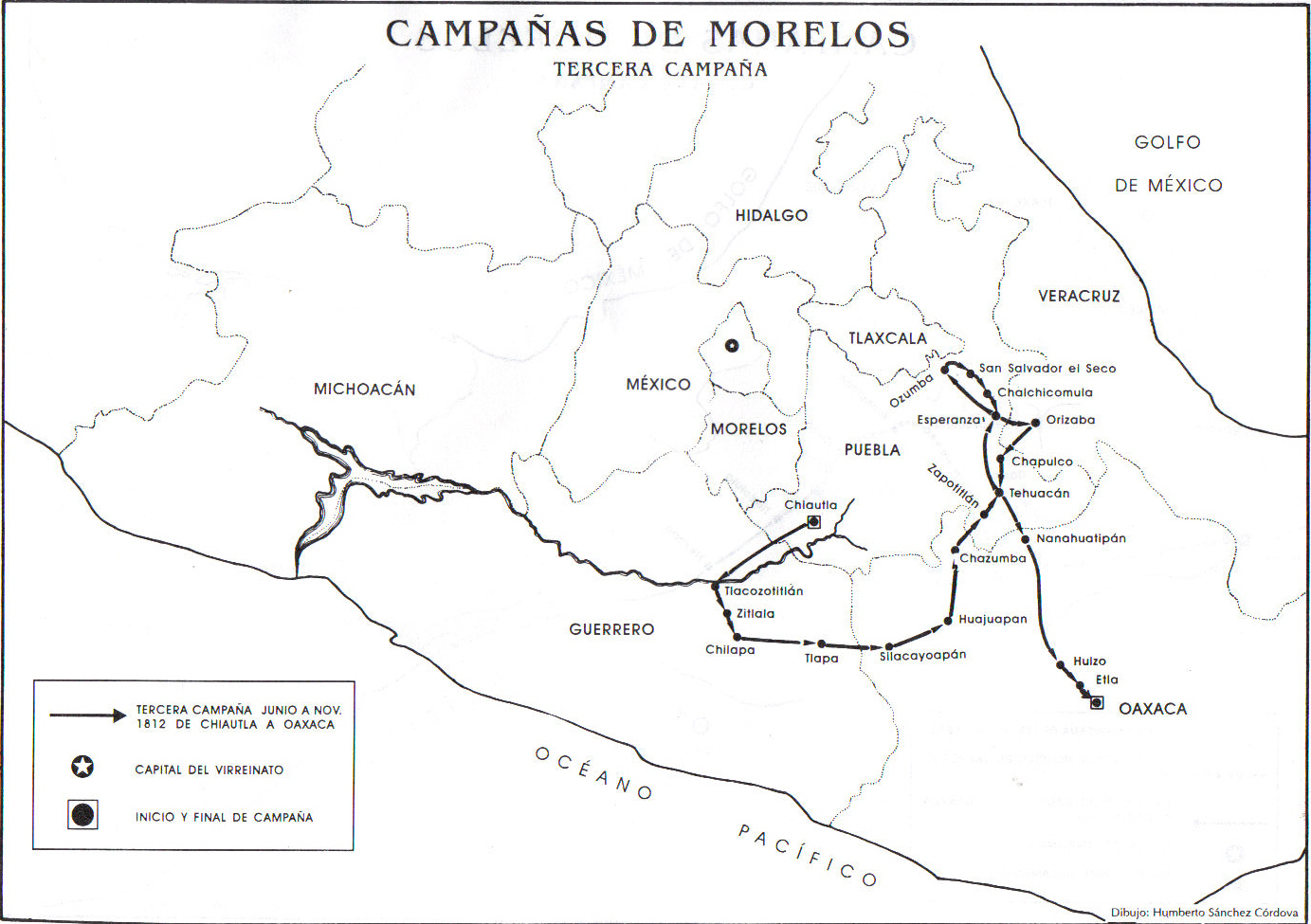 Map of third campaing of José María Morelos